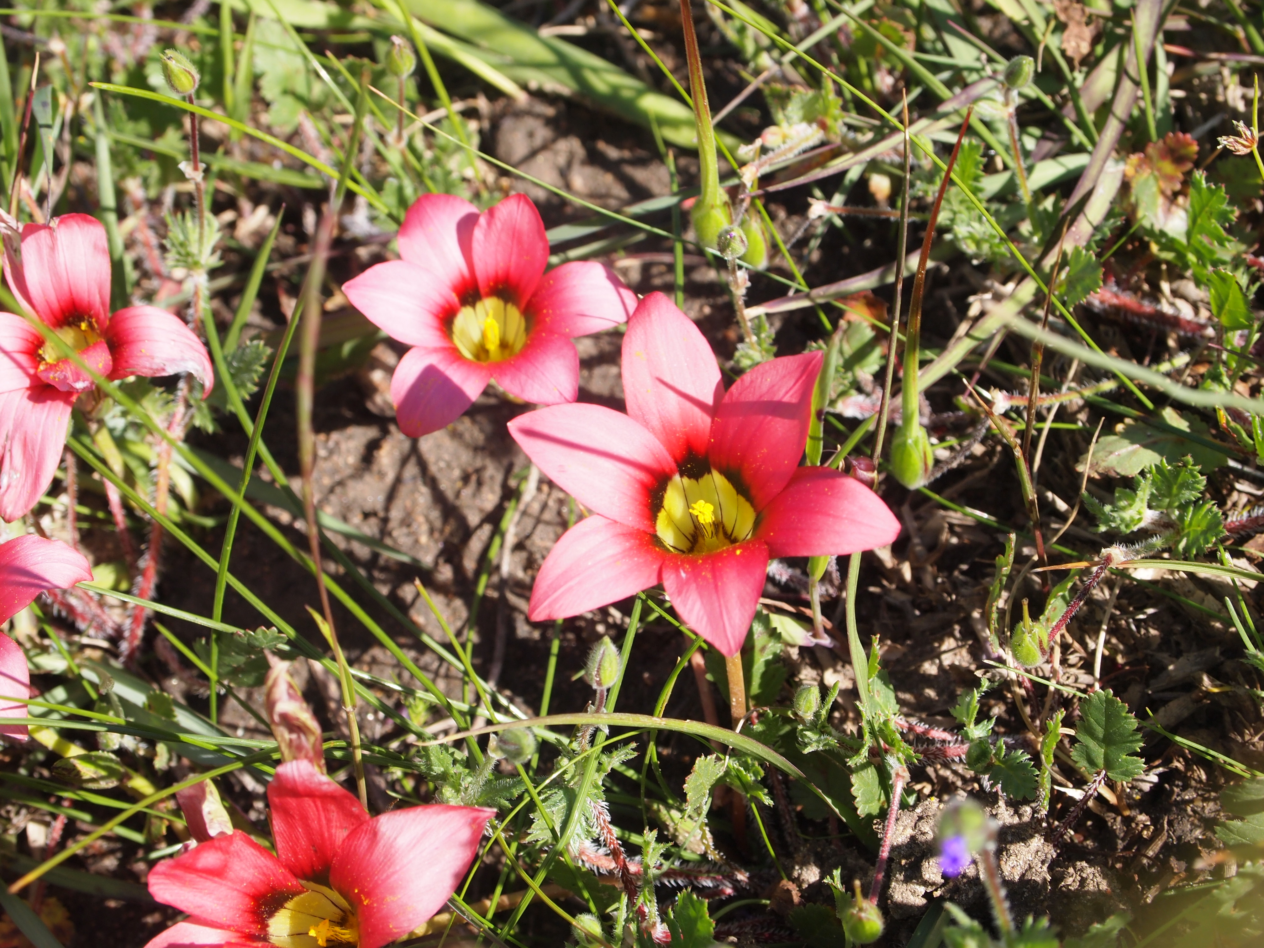 Darling Western Cape